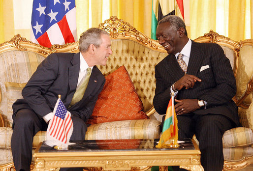 President George W. Bush speaks with Ghana President John Agyekum Kufuor during their meeting at Osu Castle, Wednesday, Feb. 20, 2008 in Accra, Ghana.